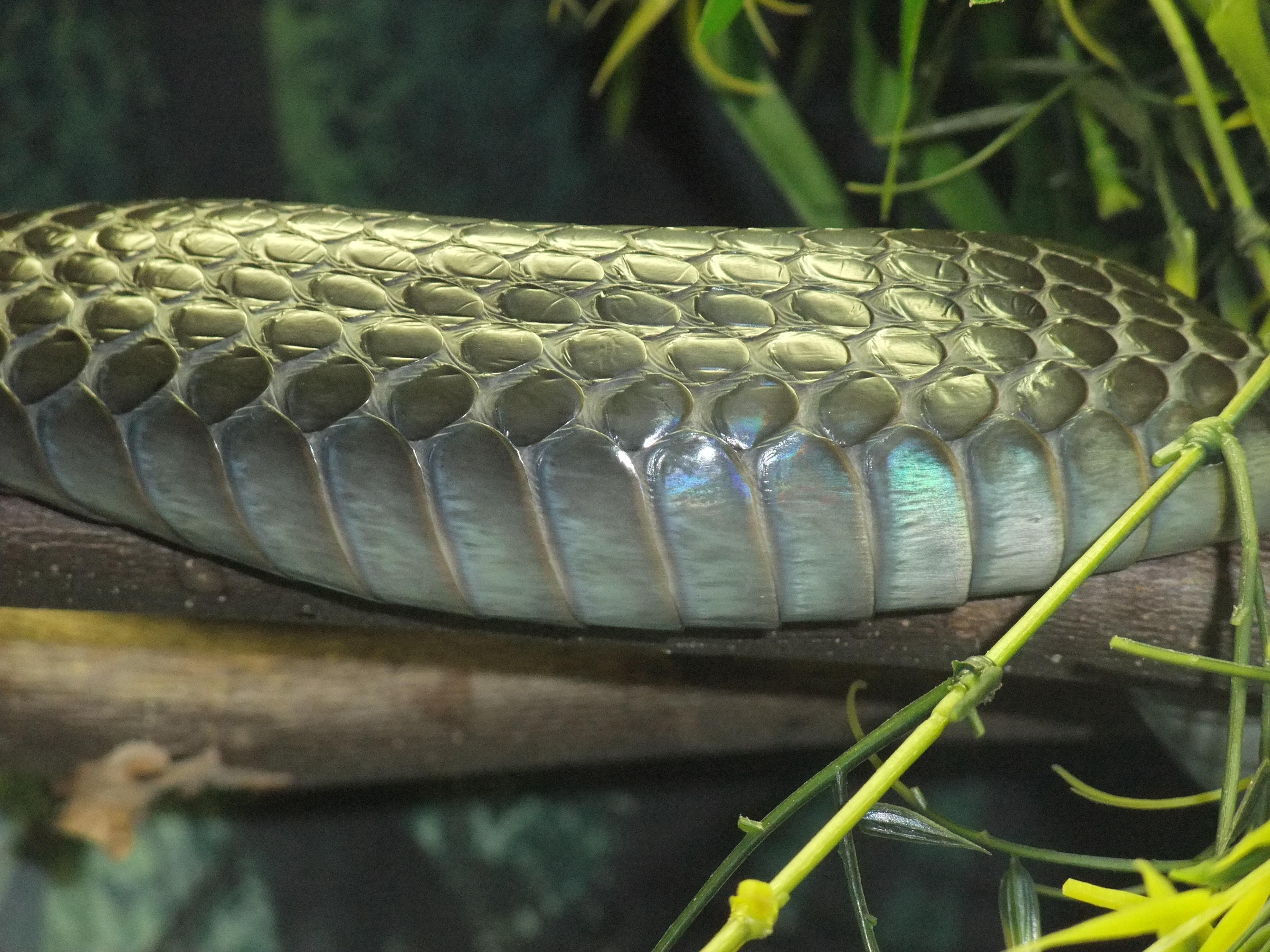 A closeup photograph of the skin of Naja melanoleuca.